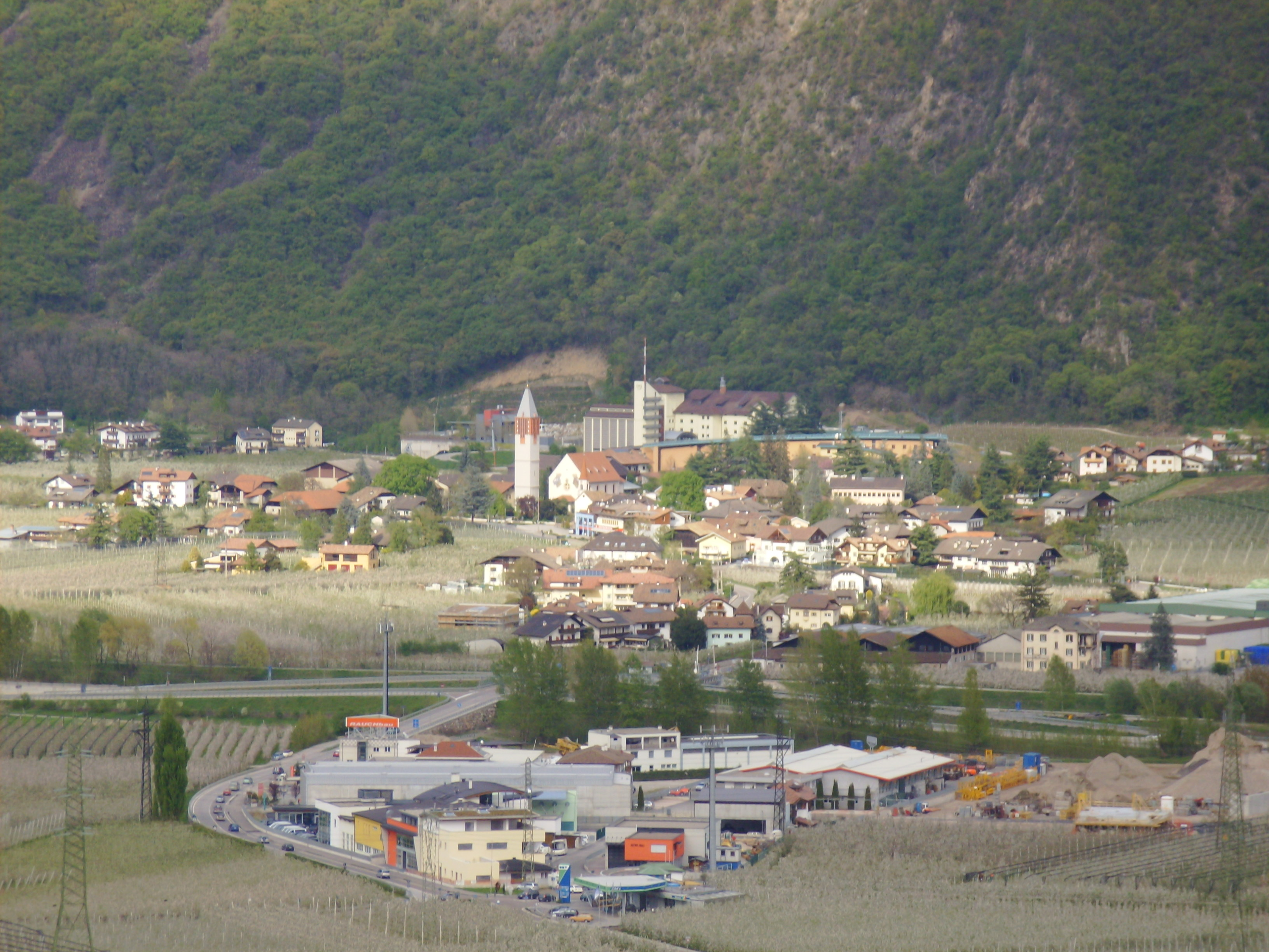 Vilpian, frazione of Terlan (South Tyrol)